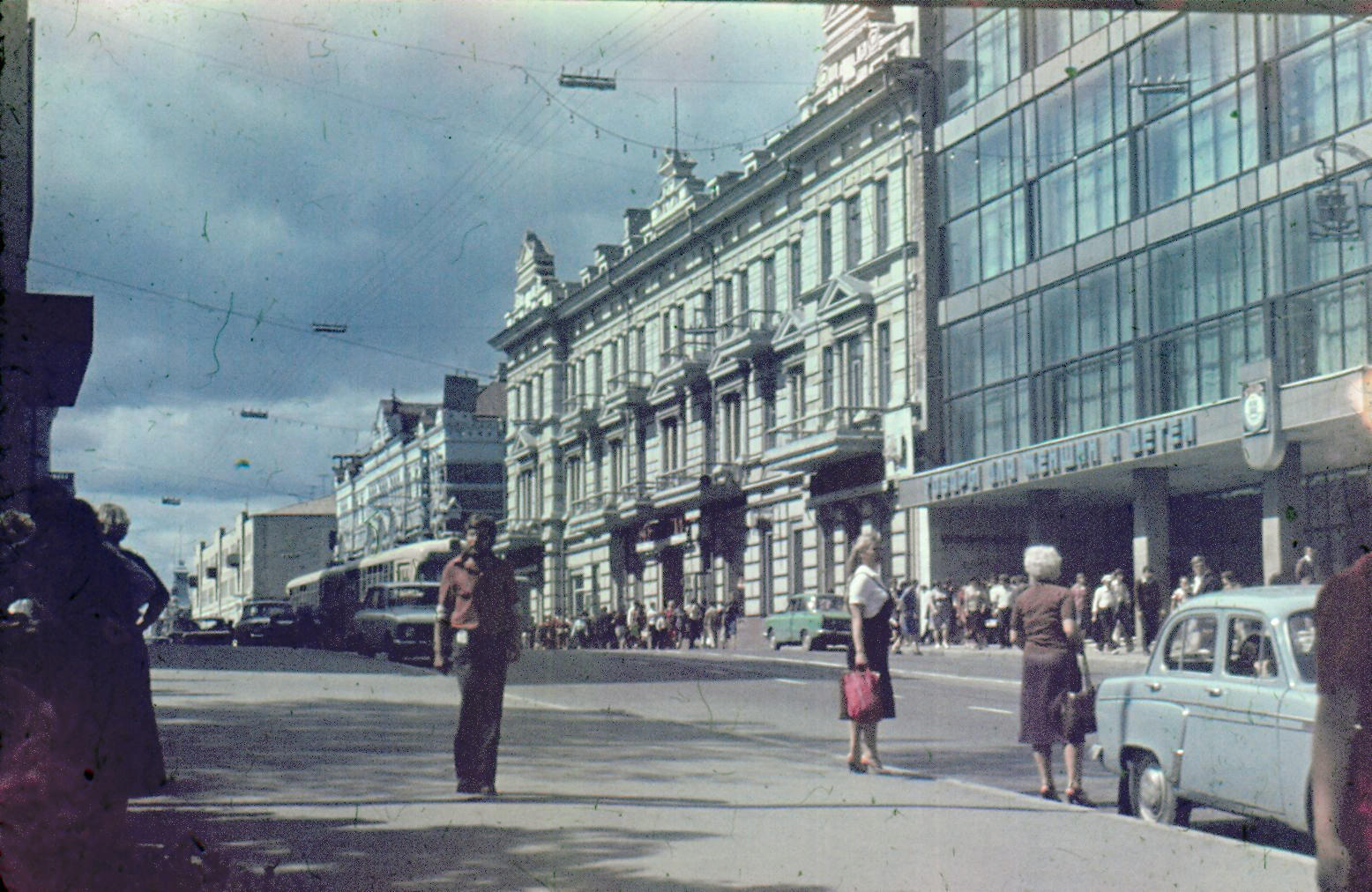 Trams in Vladivostok